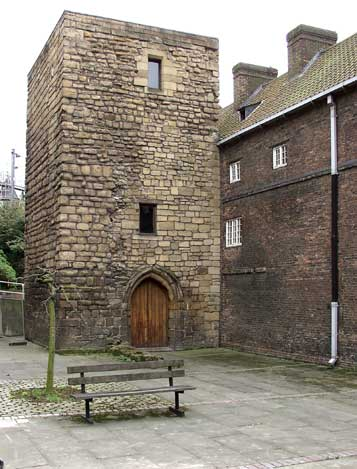 The tower of the Holy Jesus Hospital in Newcastle-Upon Tyne